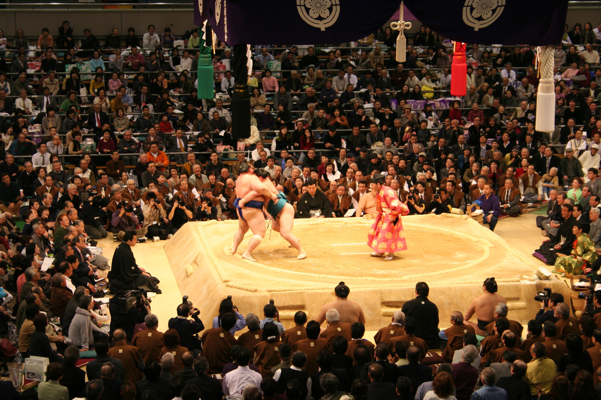 Taken at a sumo tournament in Osaka.